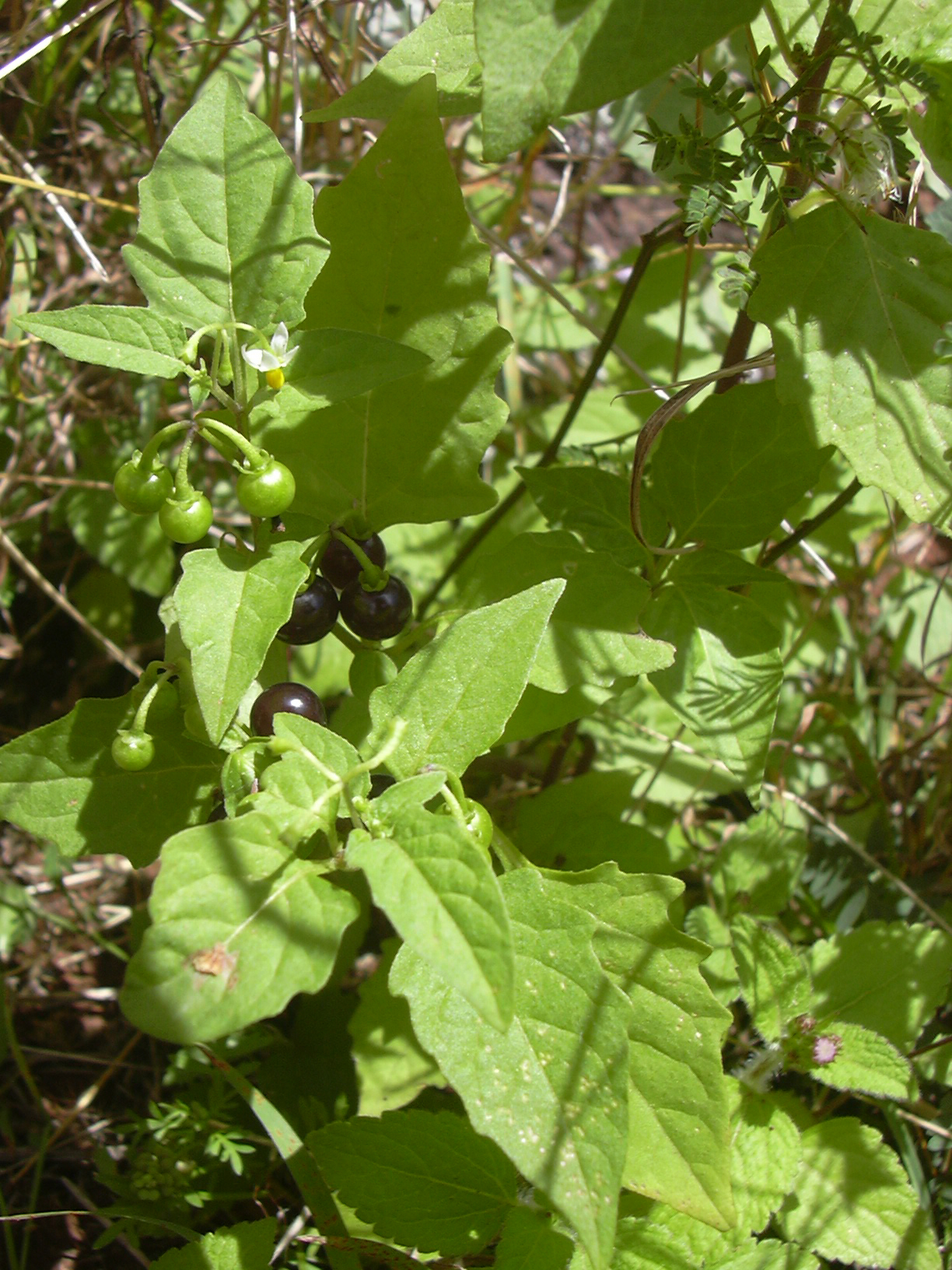 Solanum americanum (flowers and fruit). Location: Kahoolawe, Puu Moaulaiki